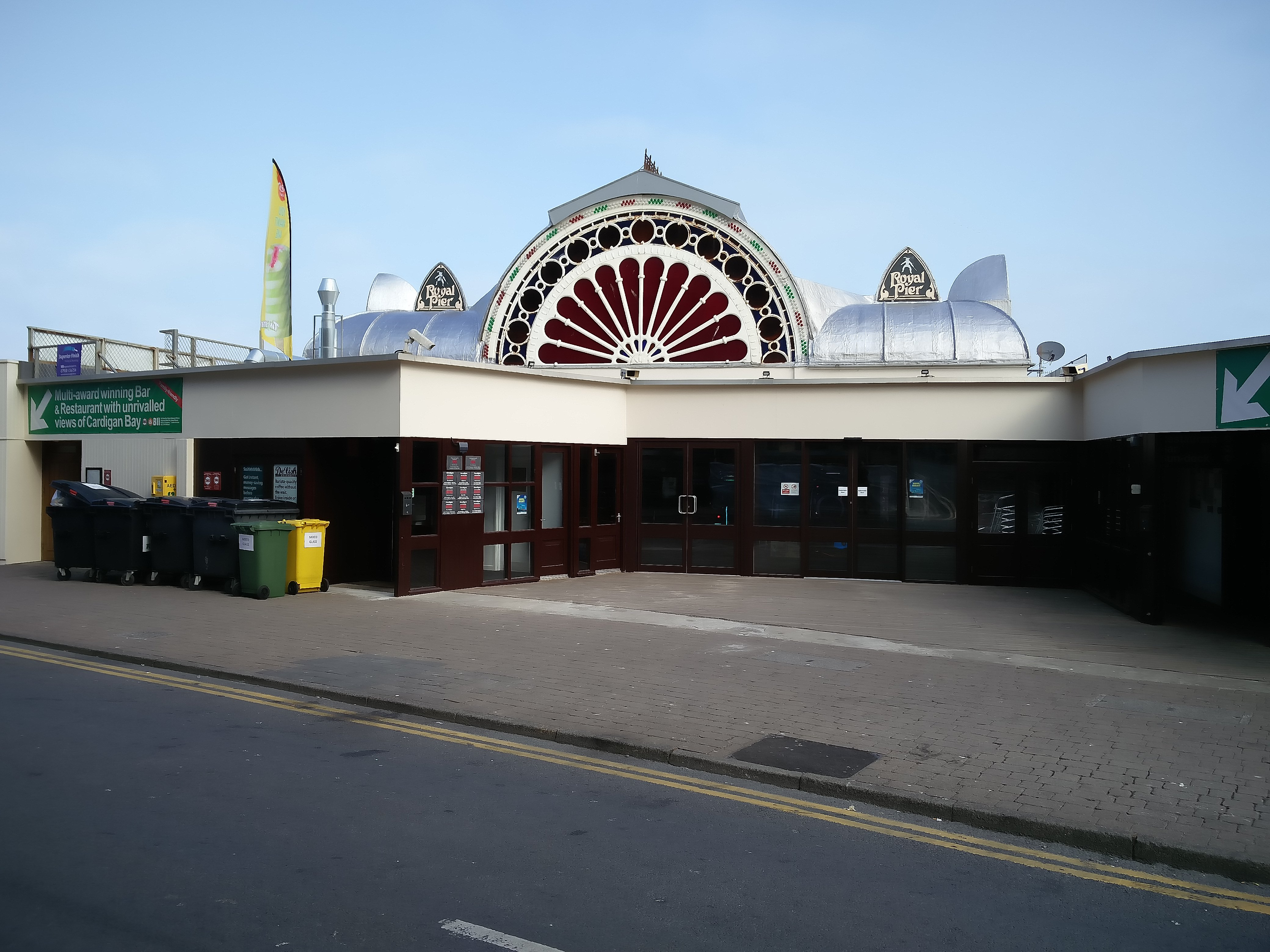 Aberystwyth Pier entrance